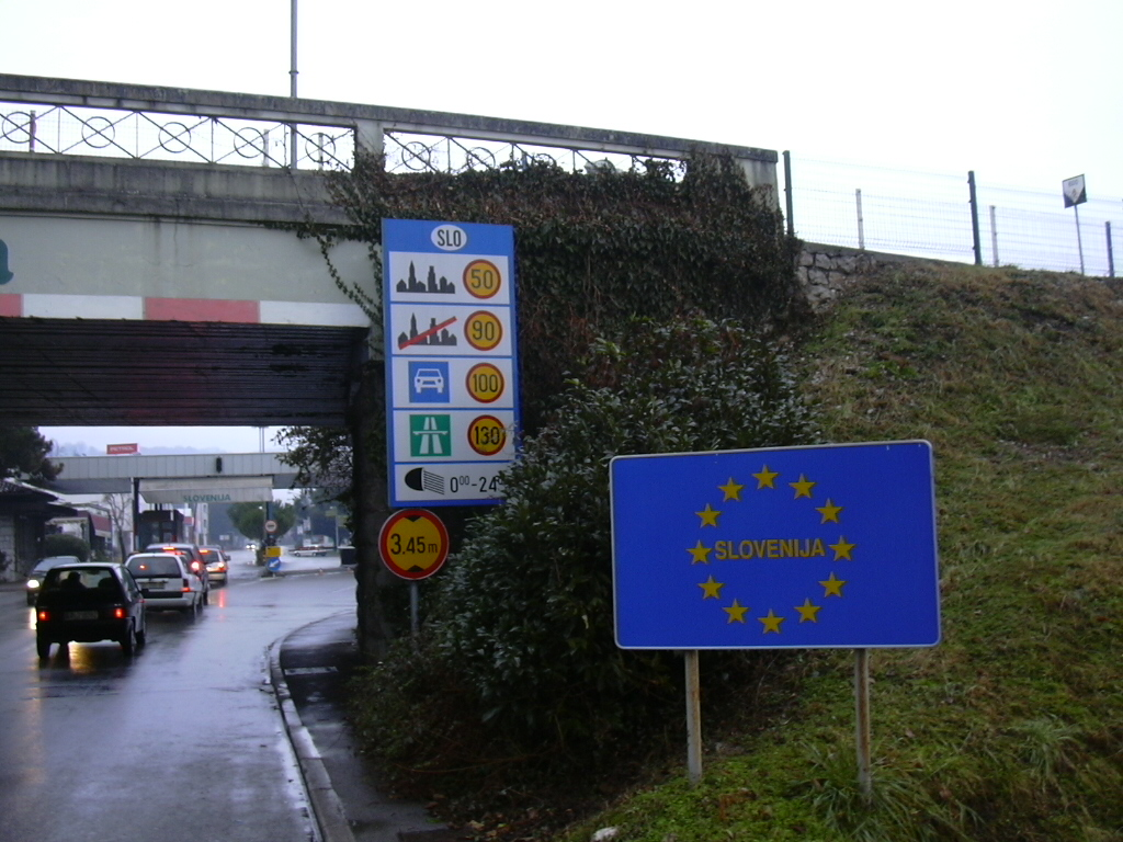 The border between Italy (Gorizia) and Slovenia (Nova Gorica).